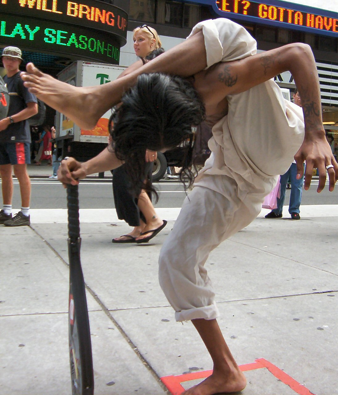 Ravi the Scorpion Mystic standing on one leg in Times Square, NYC, 2004